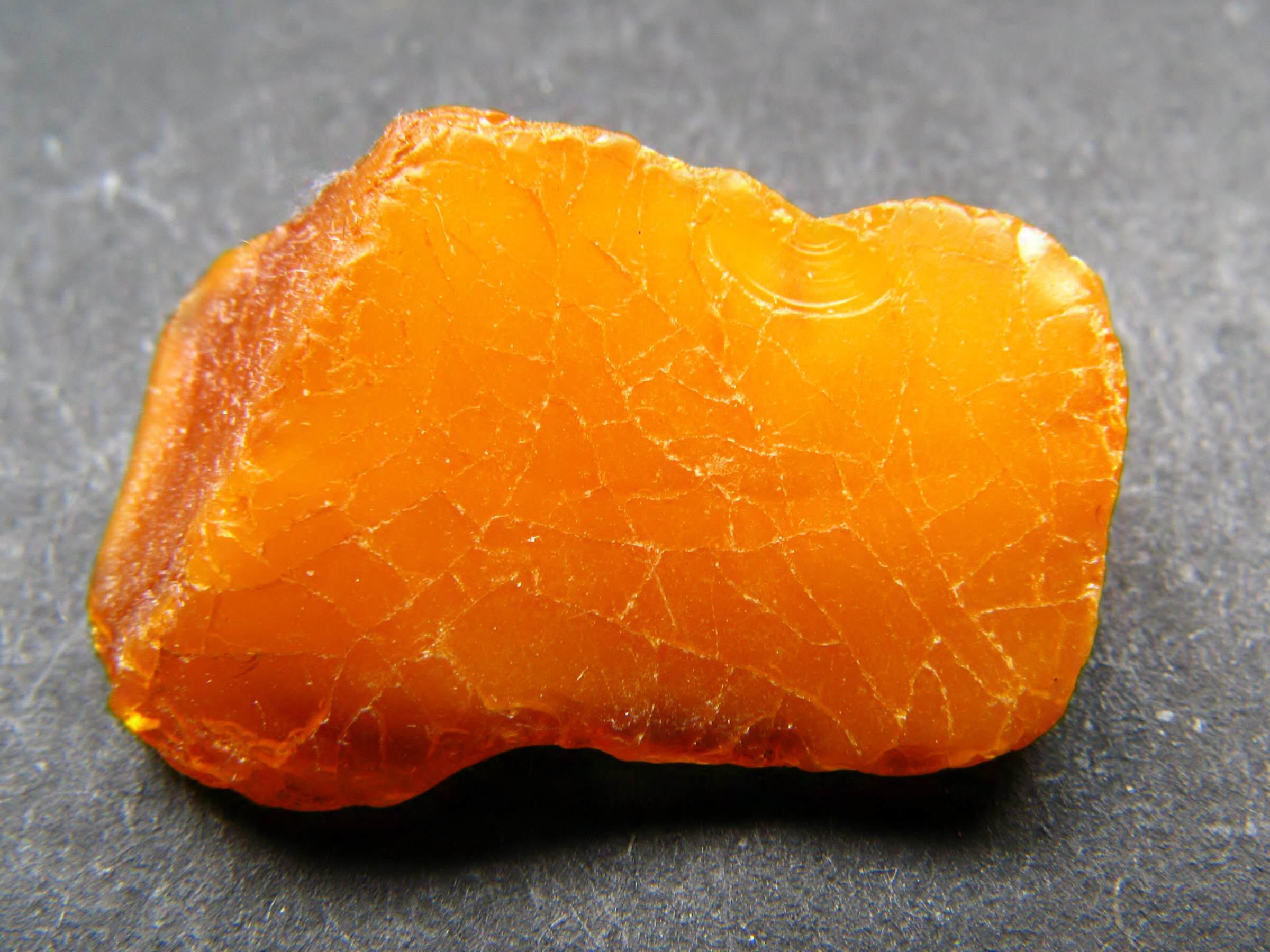 Amber - Locality: Baltic Sea